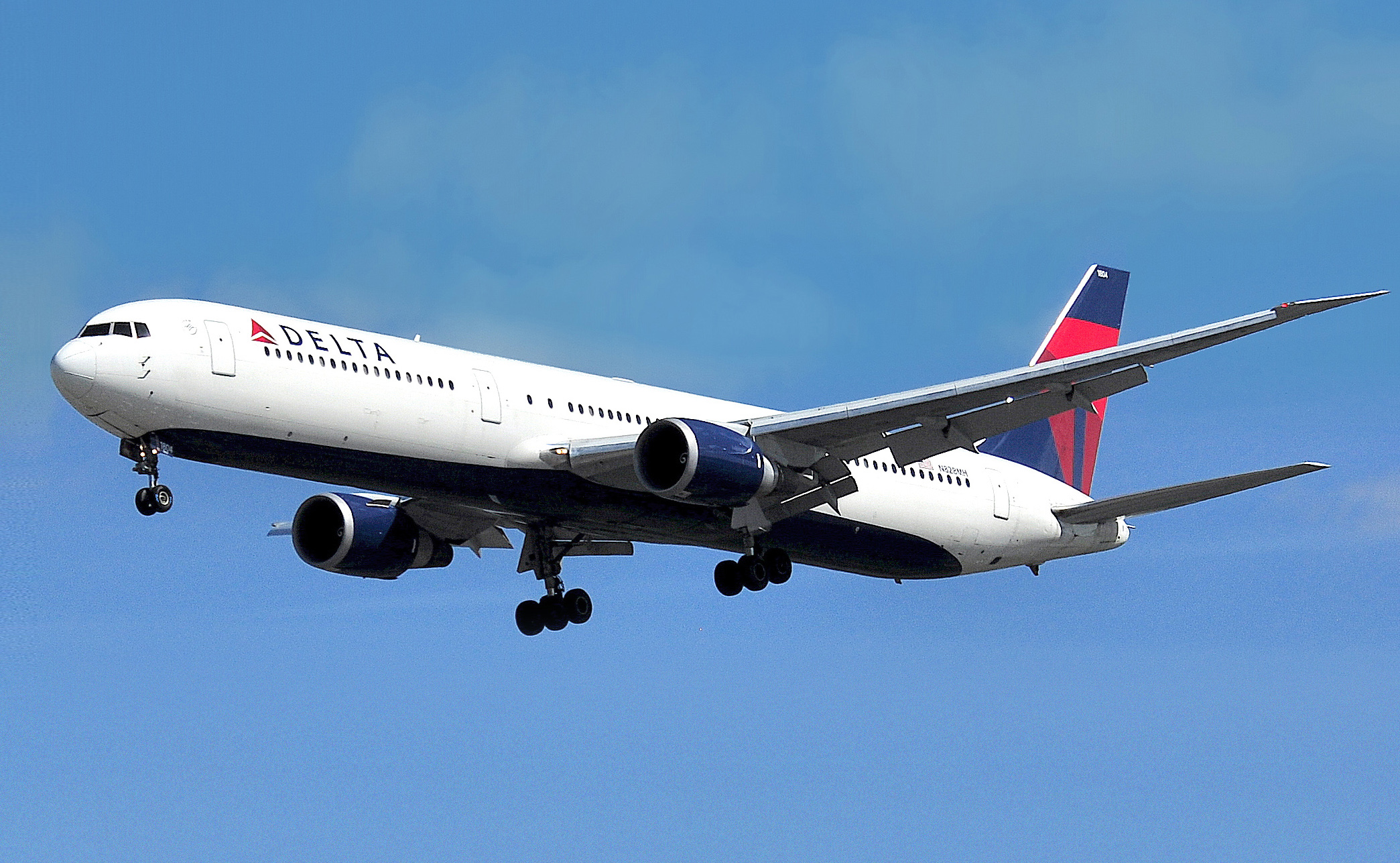 Model: Boeing 767-400 Airline: Delta Air Lines Registration number: N828MH